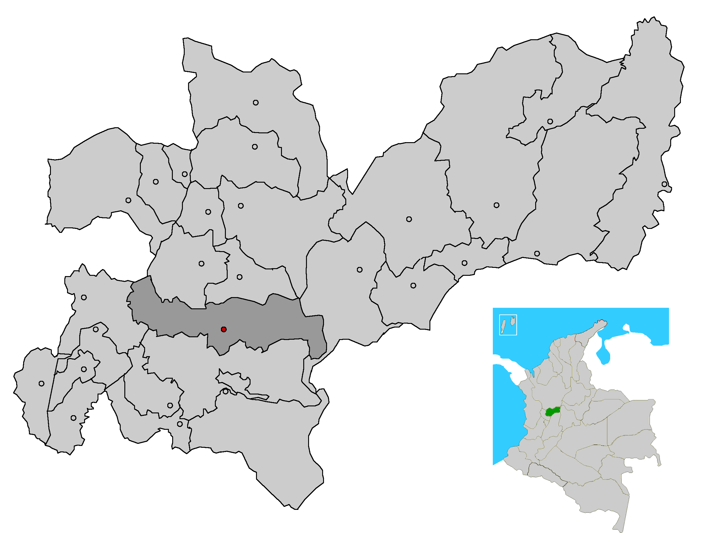 Image depicting map location of the town and municipality of Neira in Caldas Department, Colombia